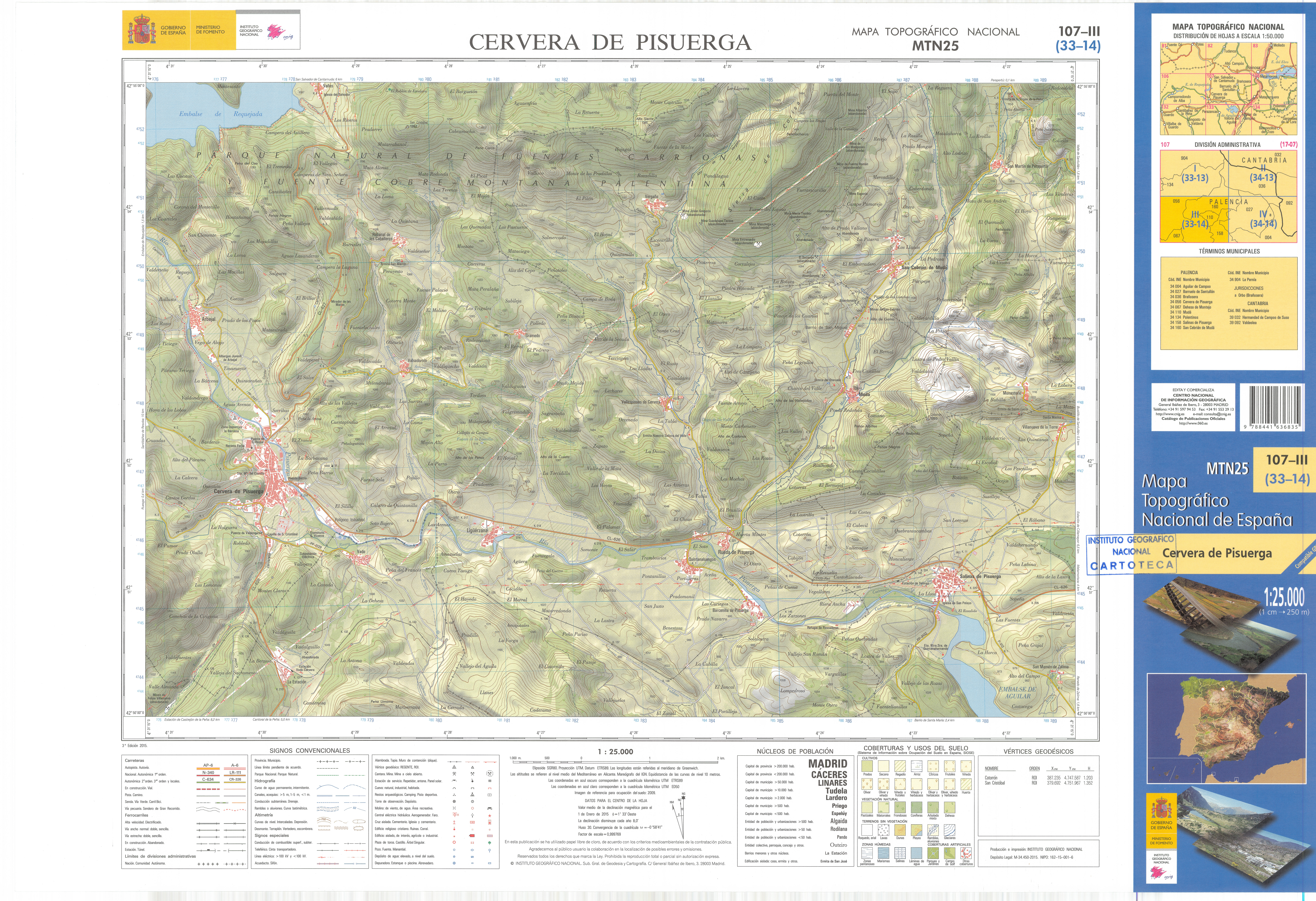 Fragment 0107c3 of the National Topographic Map of Spain in 2015 at a scale of 1:25000 printed and scanned with a resolution of 250 ppi. It shows Cervera de Pisuerga.